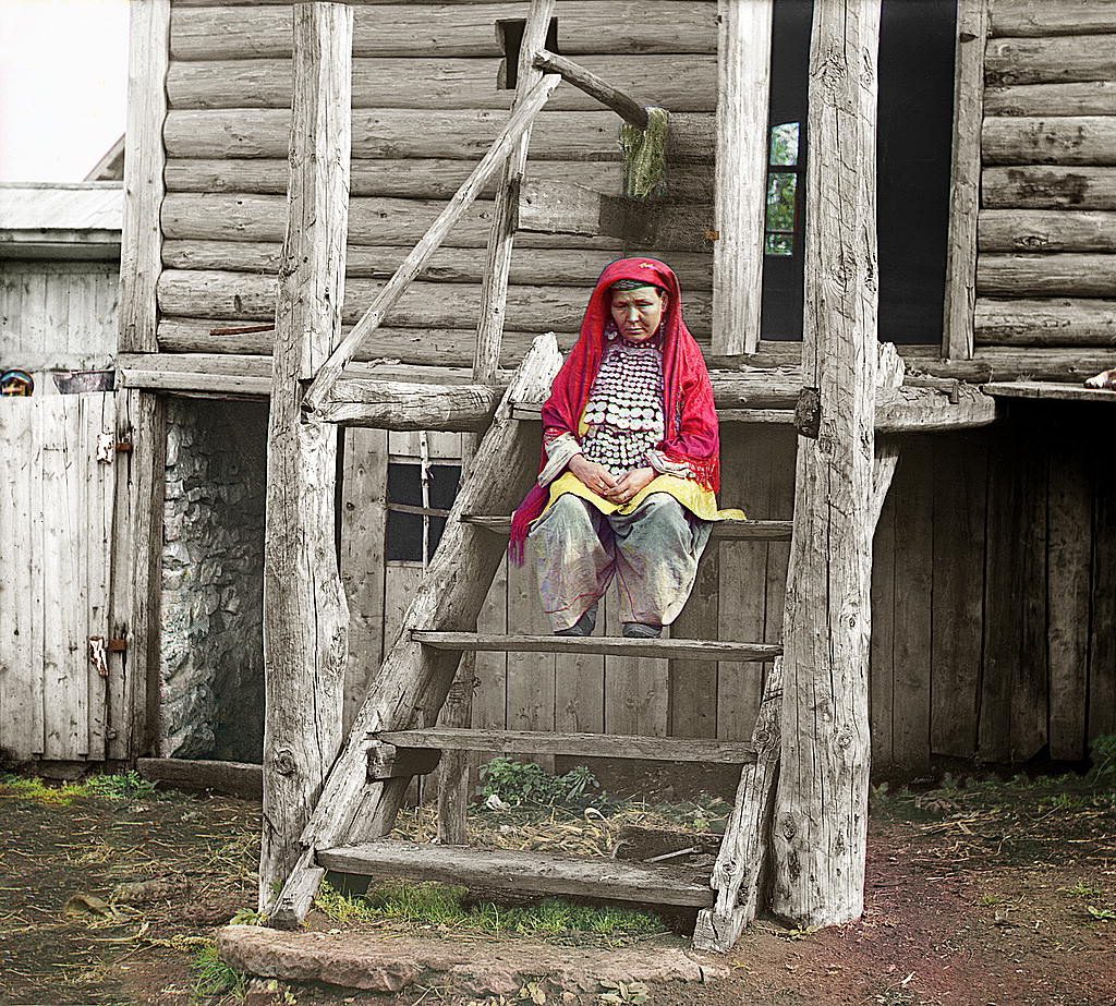 Bashkir woman in national costume